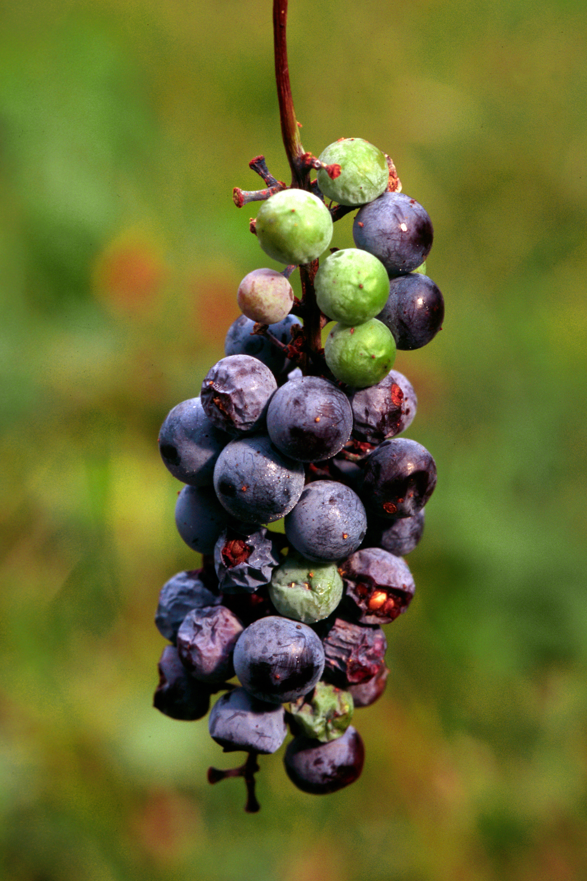 summer grape - Vitis aestivalis Michx. - Fruit(s) -September. Photo from Forest Plants of the Southeast and Their Wildlife Uses by J.H. Miller and K.V. Miller, published by The University of Georgia Press in cooperation with the Southern Weed Science Society. - United States